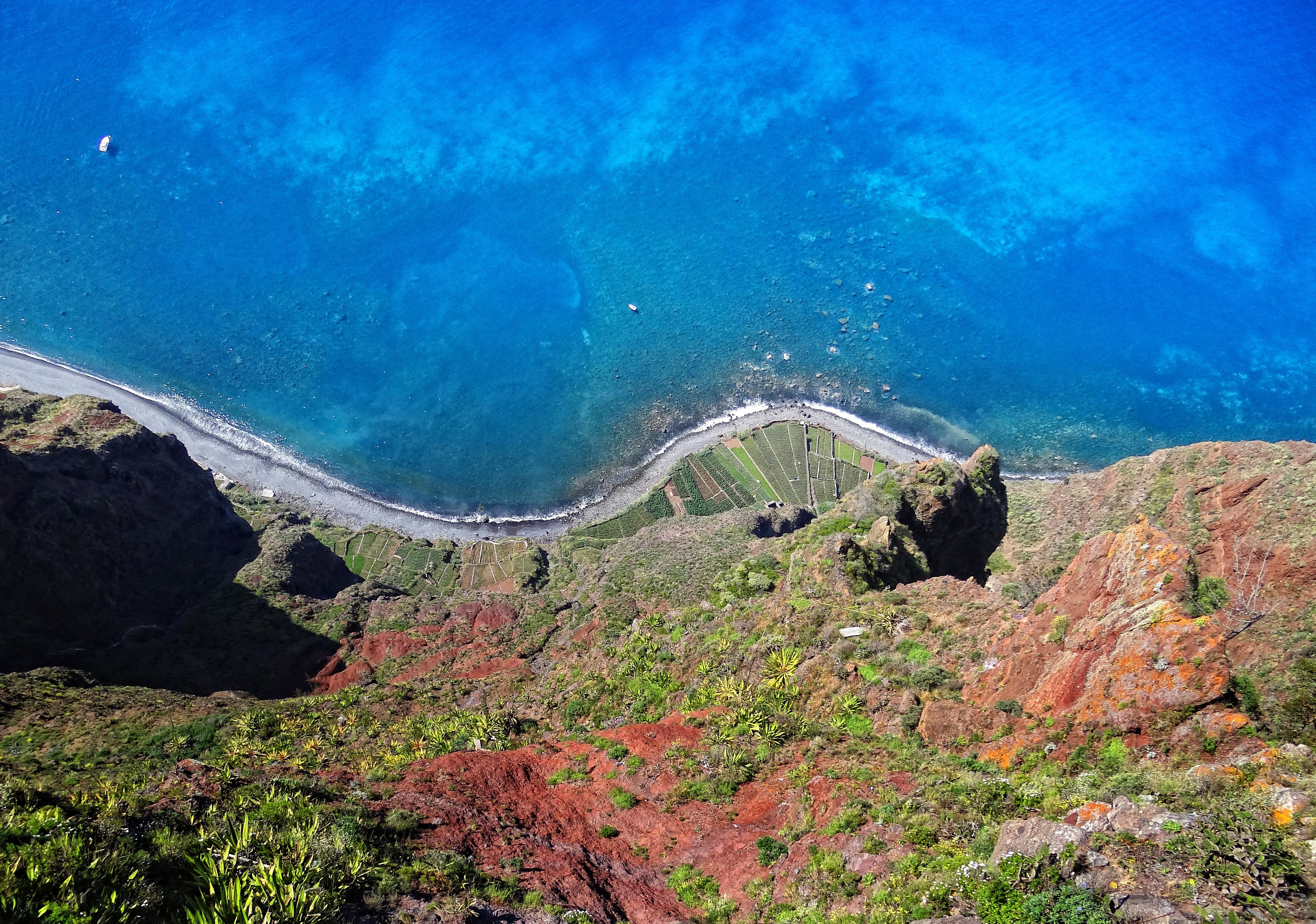 The view straight down from the glass-floored viewing platform at the top of cliff at Cabo Girão on Madeira, Portugal.